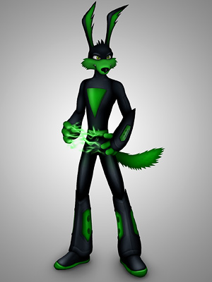 Digital fan art piece of Loonatics Unleashed animated series.